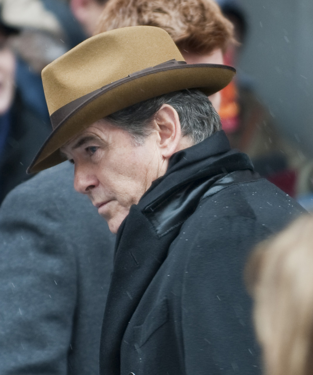 Pierce Brosnan leaving the press conference for the film "The Ghost Writer"